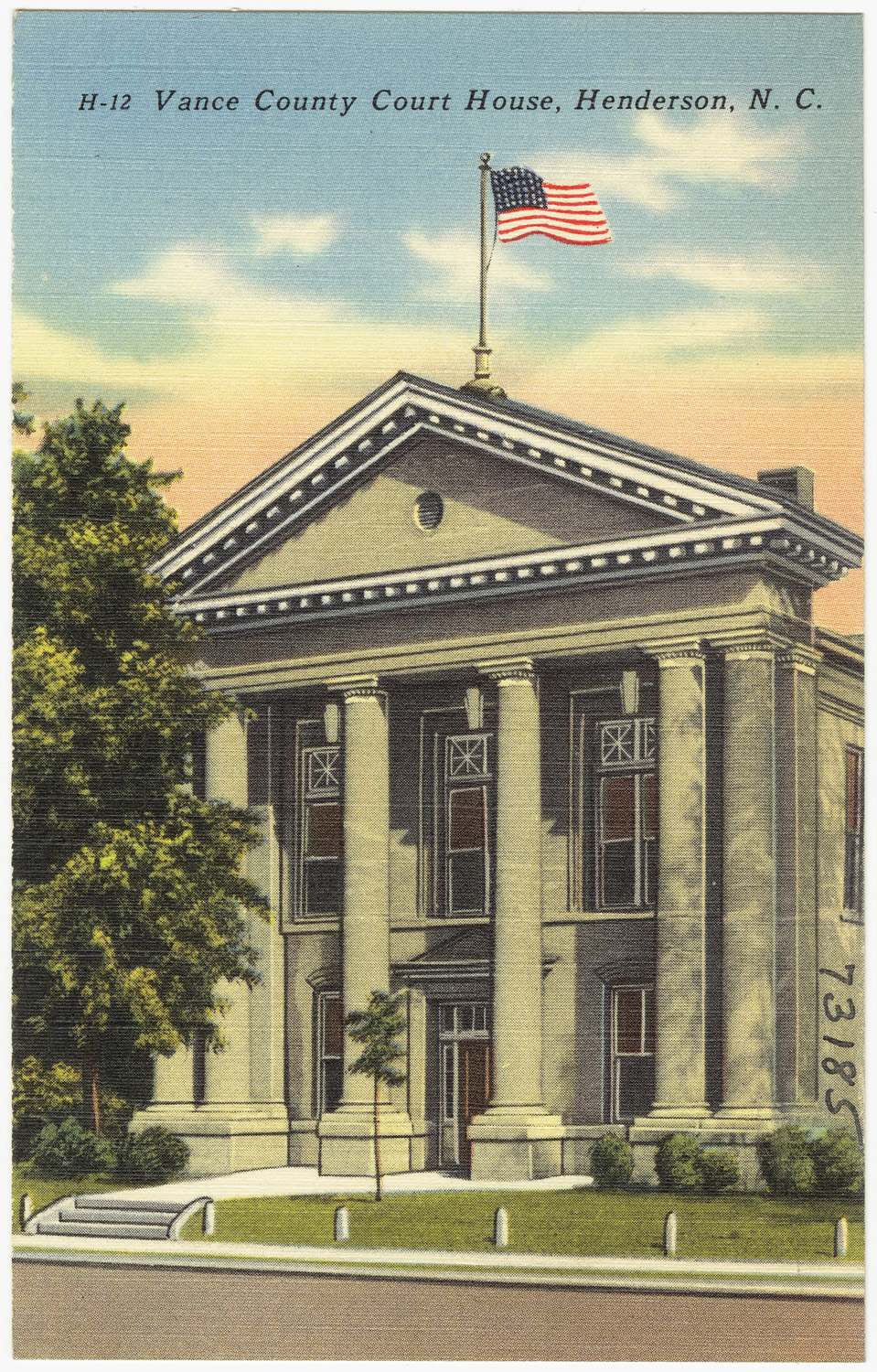 File name: 06_10_016027 Title: Vance County Court House, Henderson, N. C. Created/Published: Pub. by The Asheville Post Card Co., Asheville, N. C. Date issued: 1930 - 1945 (approximate) Physical description: 1 print (postcard) : linen texture, color ; 5 1/2 x 3 1/2 in. Genre: Postcards Subjects: Courthouses Notes: Collection: The Tichnor Brothers Collection Location: Boston Public Library, Print Department Rights: No known restrictions